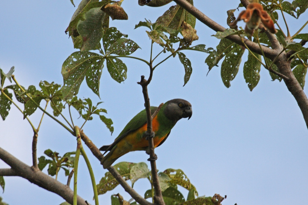 A Senegal Parrot in Gunjur, Western Division, Gambia. One of a small flock in a wooded patch between farm fields near Gunjur